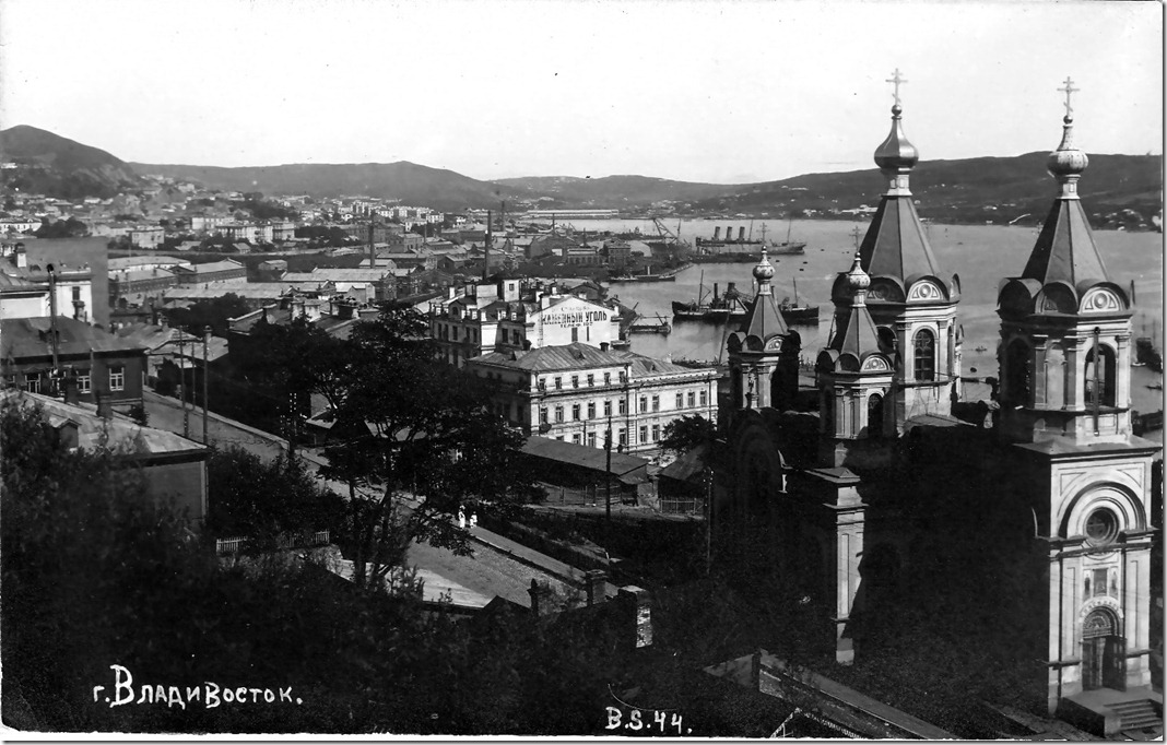 Vladivostok, Cathedral of the Dormition of the Theotokos (built in 1876—1899), demolished in 1938.